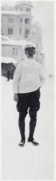 Dutch poet J.H. Leopold (1865-1925), in Pontresina.